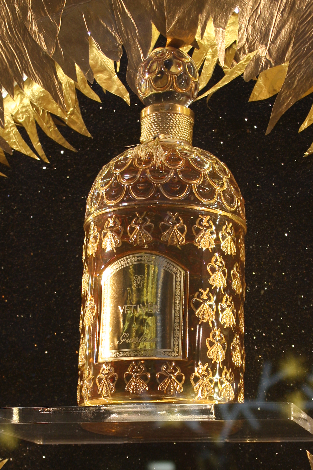 Guerlain Golden Bee Bottle. Cropped by File:Flickr - ParisSharing - Guerlain, merchandising.jpg